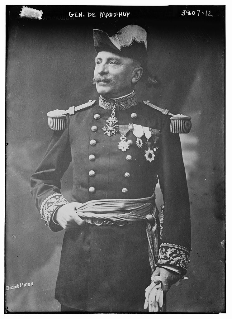 Louis de Maud'huy in 1916